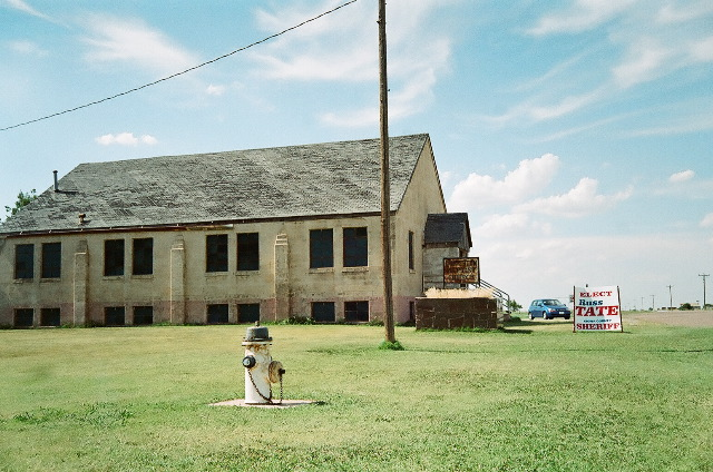 Cooperton Baptist Church, which is the most substantial building standing in the small community.